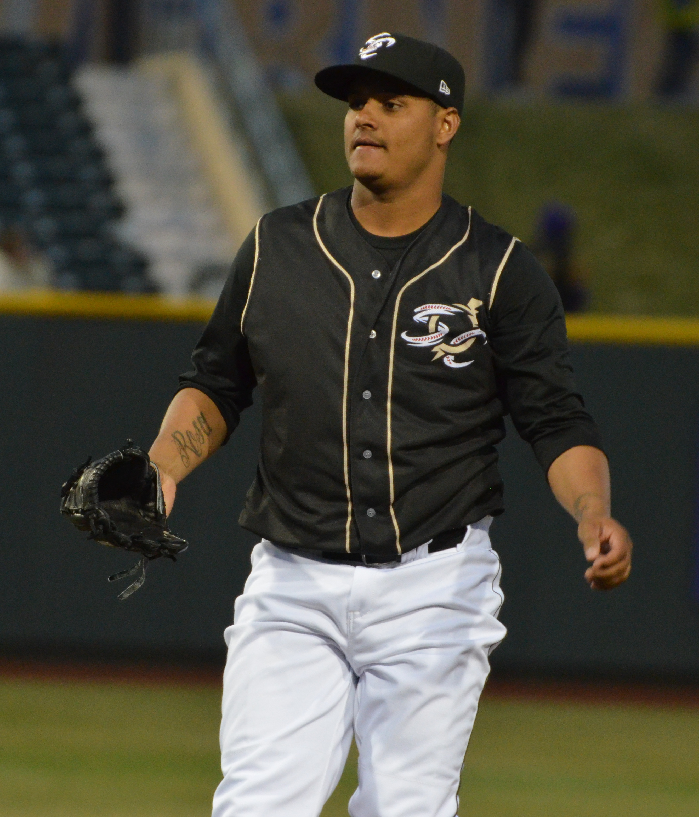 Dominican pitcher Atahualpa Severino with the Omaha Storm Chasers at Werner Park in Omaha in 2013